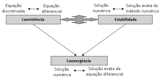 This image shows the relations between consistency, stability and convergence, regarding to numerical schemes